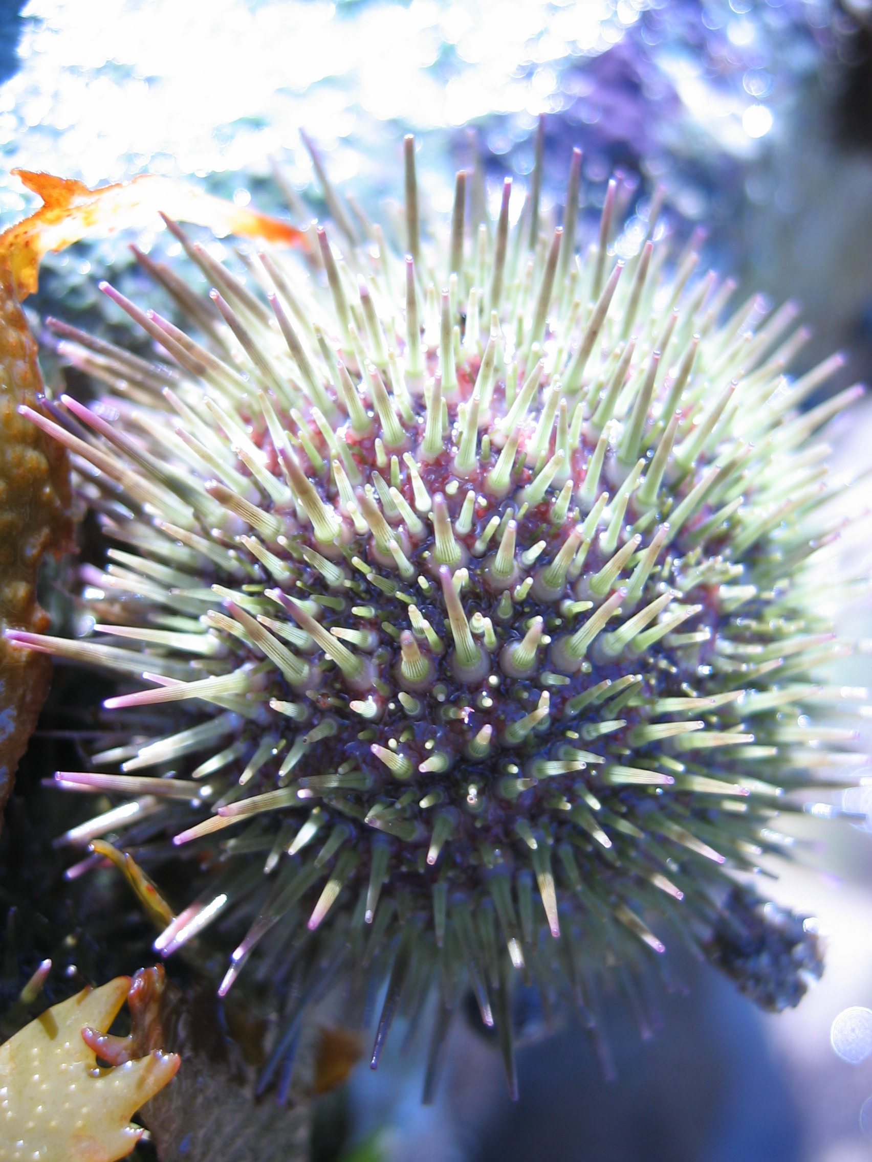 Photograph of a sea urchin